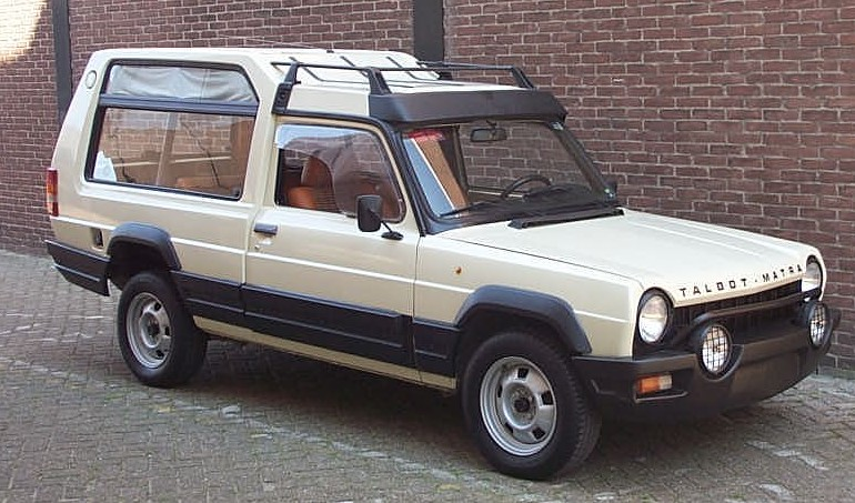 Talbot Matra Rancho